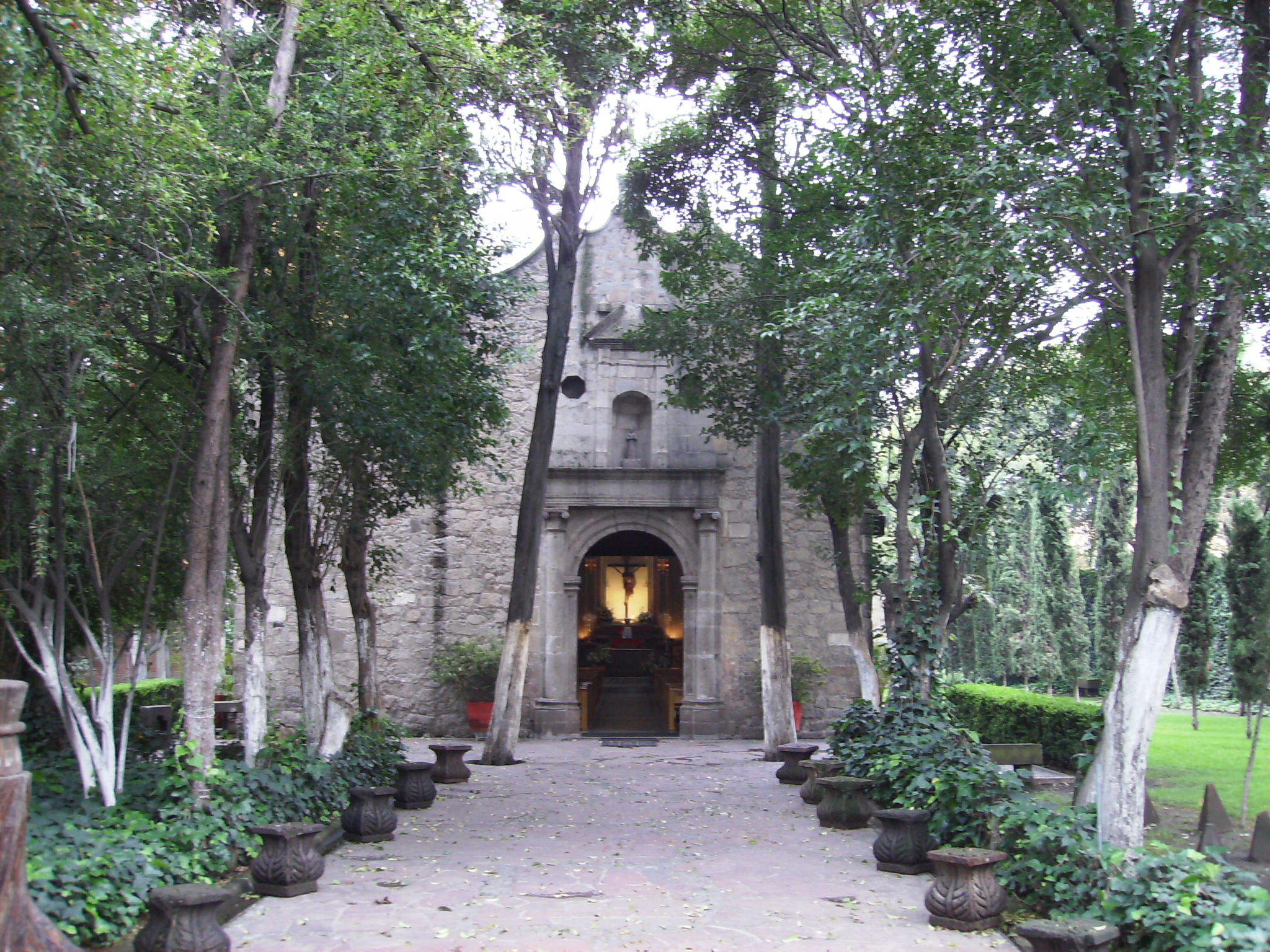 Church of Precious Blood of Christ in Santa Maria Nativitas, Naucalpan, México.